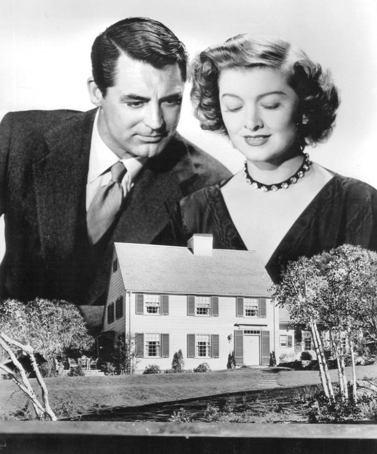 Promotional photo of Cary Grant and Myrna Loy for the film Mr. Blandings Builds His Dream House (1948). Loy is wearing a costume designed by costume designer Robert Kalloch.